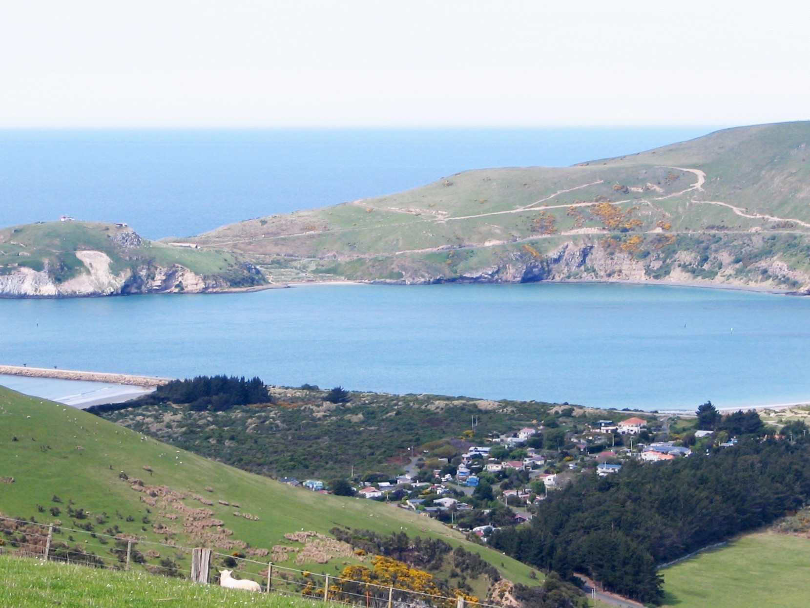 Aramoana, Dunedin New Zealand, lower right of photo. Looking east across the entrance of Otago Harbour, from Heyward Point Road.